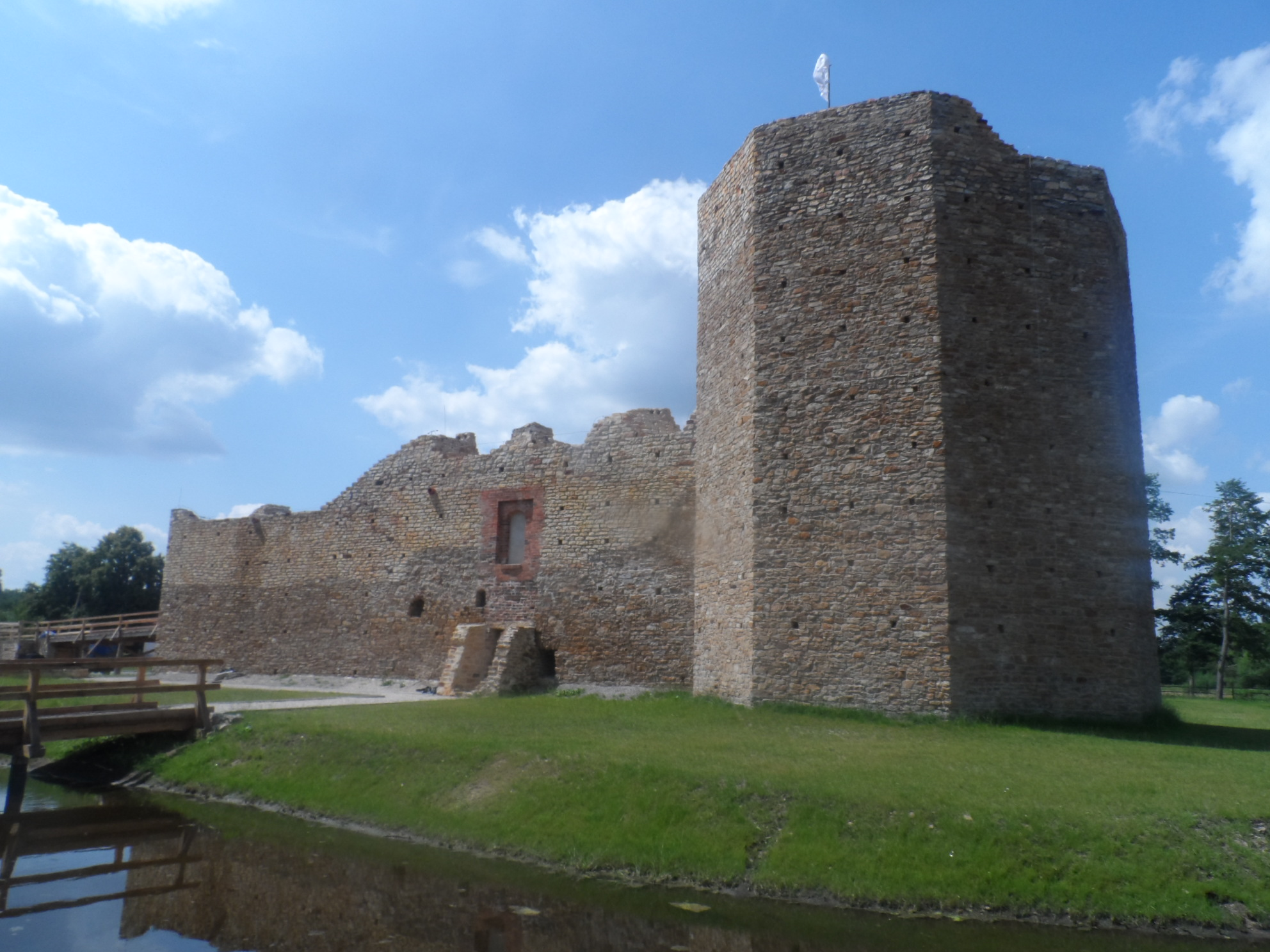 Ruiny zamku.Inowłódz